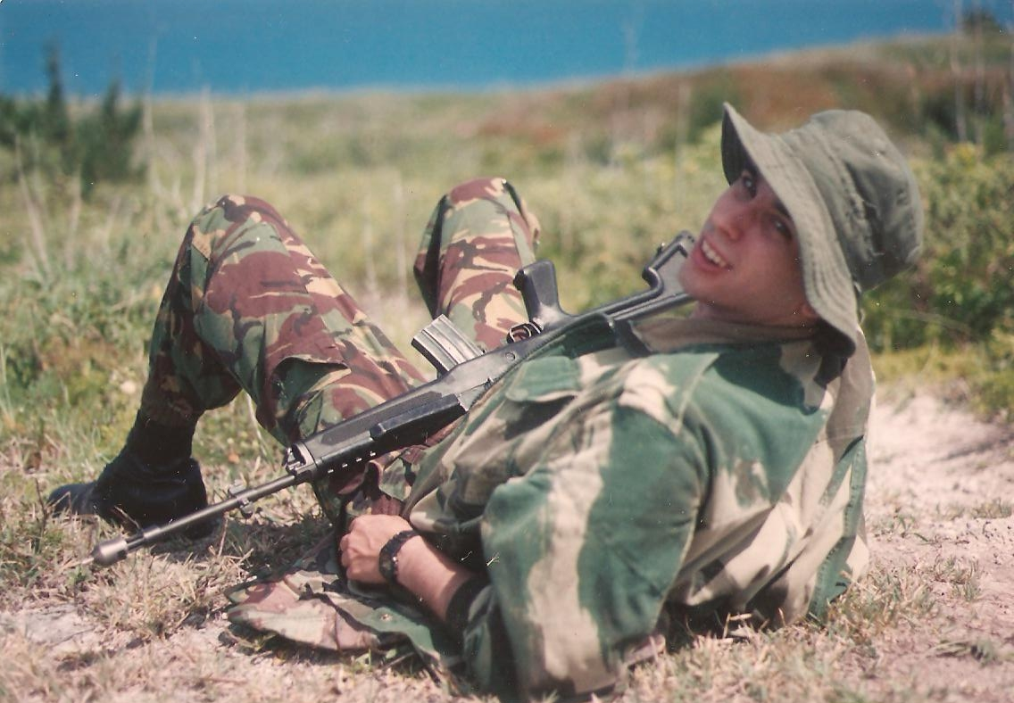 A soldier of the Royal Bermuda Regiment at Ferry Reach, St. George's Island, Bermuda, in 1994, acting as "enemy" for the Potential Non-Commissioned Officer Cadre. He is wearing an obsolete Denison parachute smock and a green bush hat, in addition to a Disruptive Pattern Material No. 9 uniform. He is armed with a Ruger Mini-14 GB/20 self-loading rifle.